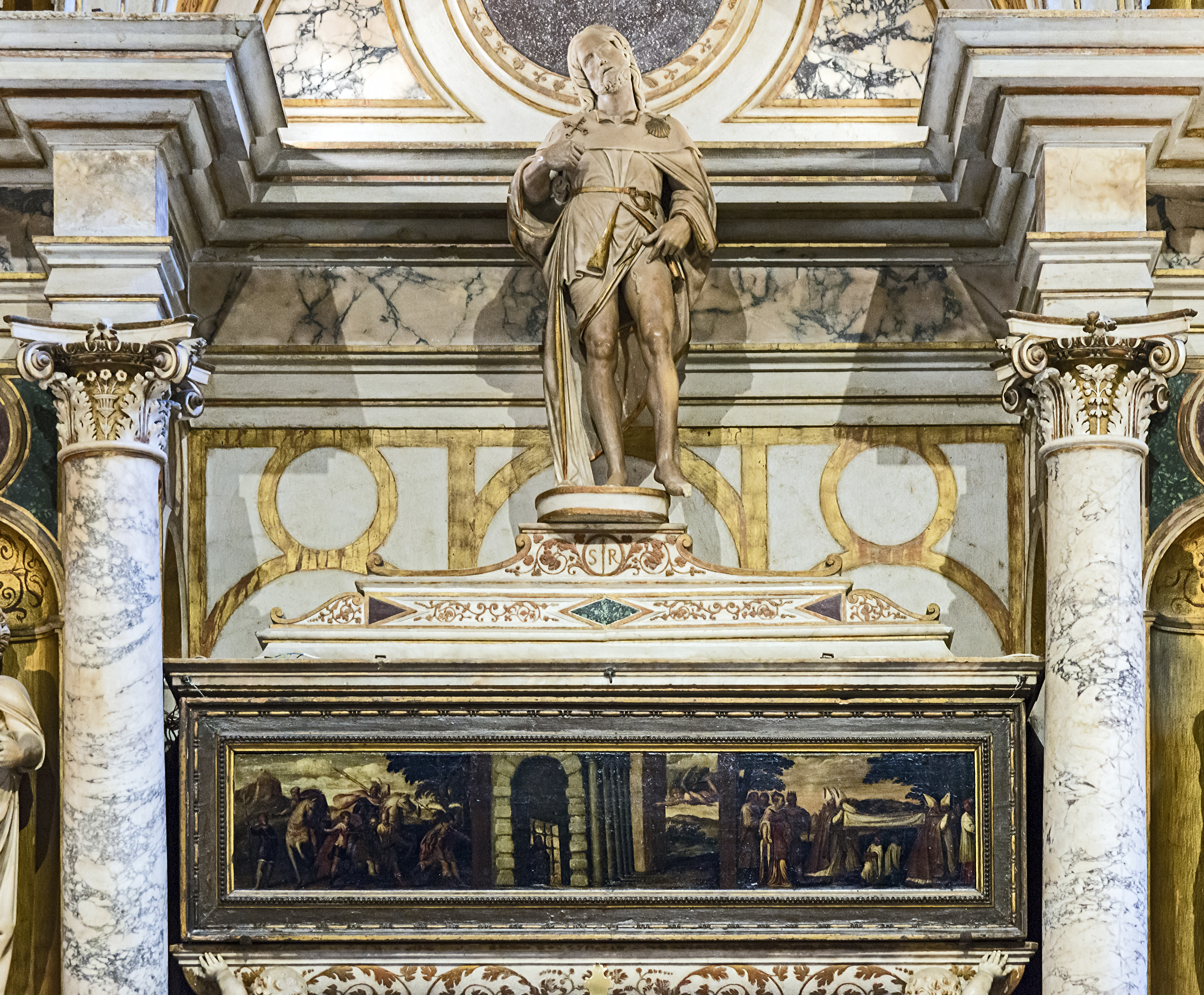 Church of San Rocco in Venice - interior. Altarpiece and tomb of St. Rocco statue of the saint by Pietro Bon.